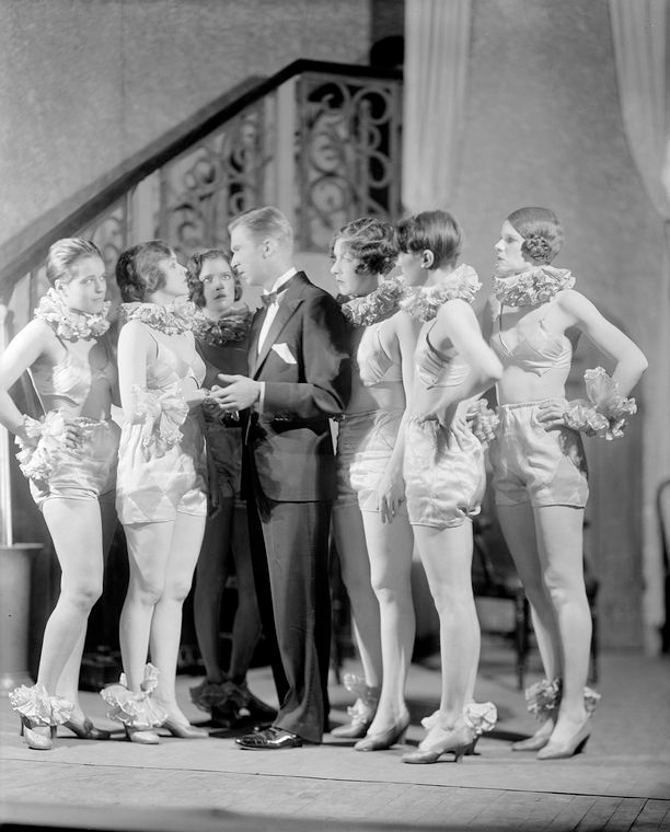 Photograph of the Broadway production of Broadway Caption reads as follows: Roy (Lee Tracy), his jealousy aroused, questions "Billie" (Sylvia Field) about the bracelet